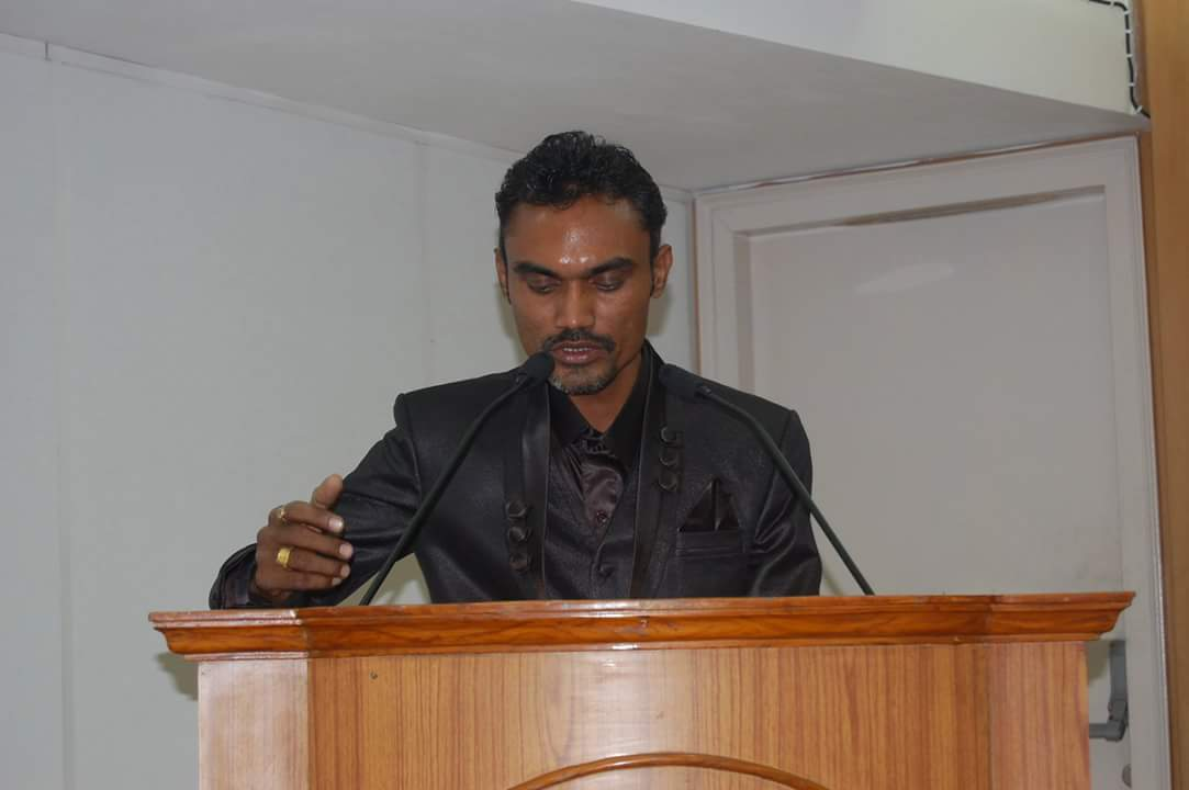 Dr. Rajesh Vankar Giving His Speech At Delhi Sahitya Akademi